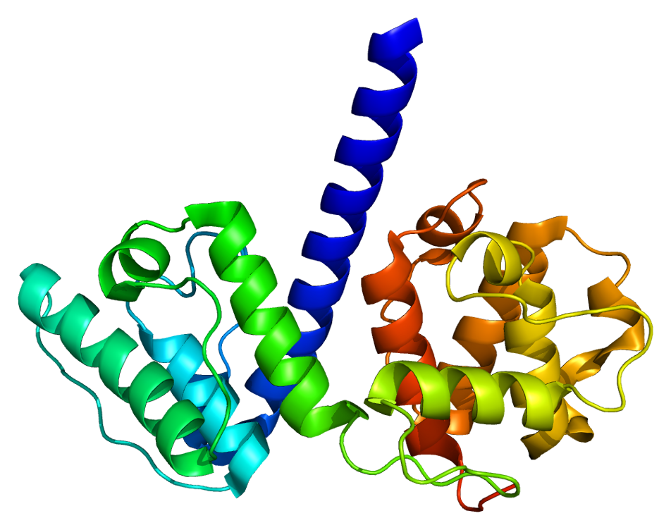 Structure of the PLEC1 protein. Based on PyMOL rendering of PDB 1mb8.